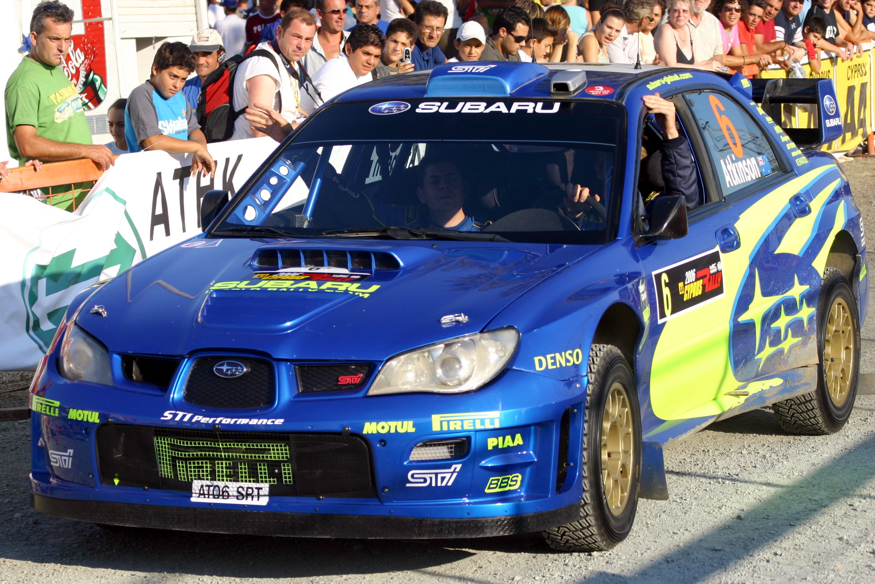 Chris Atkinson at the closing ceremony of the 2006 Cyprus Rally.